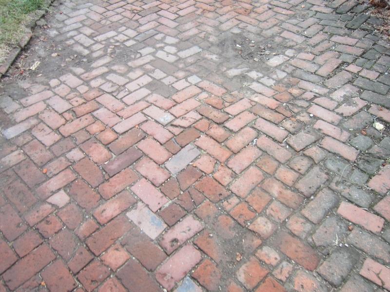 old brick sidewalk in brewery district